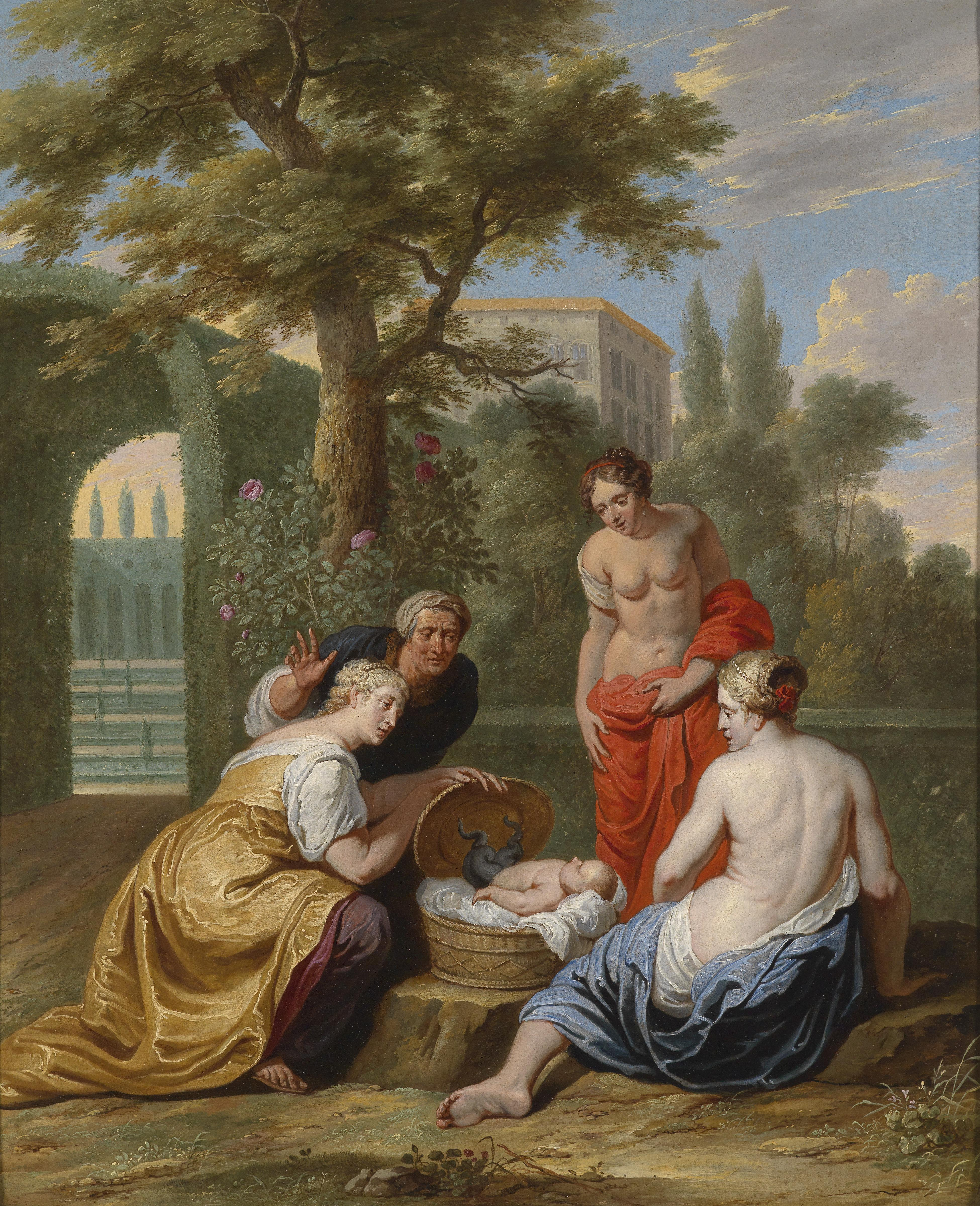 The finding of the infant Erichthonius by Cecrops's daughters.label QS:Lde,"Die Auffindung des Erichthonios durch die Töchter des Kekrops"label QS:Len,"The finding of the infant Erichthonius by Cecrops's daughters."